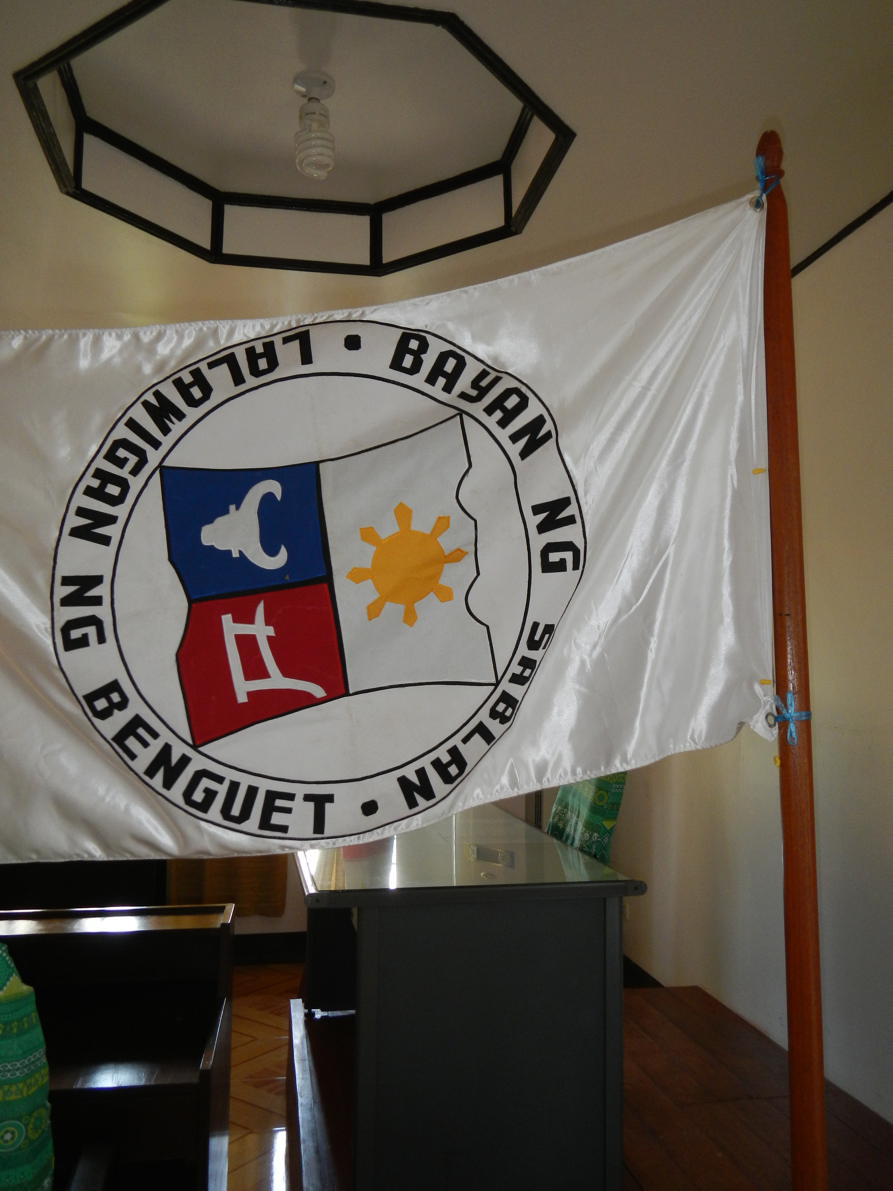 This is part of photos of the beautiful Sablan Municipal Hall complex compound and offices beside the Gymnasium, police station and the 66th Infantry USAPIL 129 Infantry 37th Division US Armay NL WWII monument of Benguet heroes in Town Proper of Sablan, Benguet Benguet province (Welcome monument, along Naguillan road, gateway to Baguio City; inclduing the scenery, panoramics, landscapes of Cordillera Central (Luzon) mountain ranges, with only one bank, the Benguet Center Bank, Inc.).